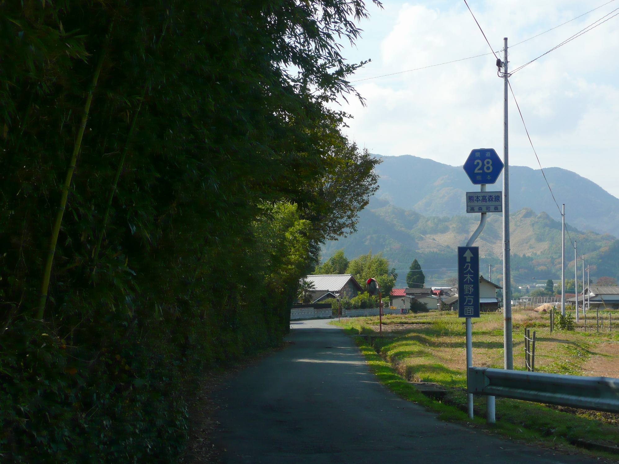 Kumamoto Prefectural Road No.28 (Mori, Takamori, Takamori Town, Kumamoto, Japan)